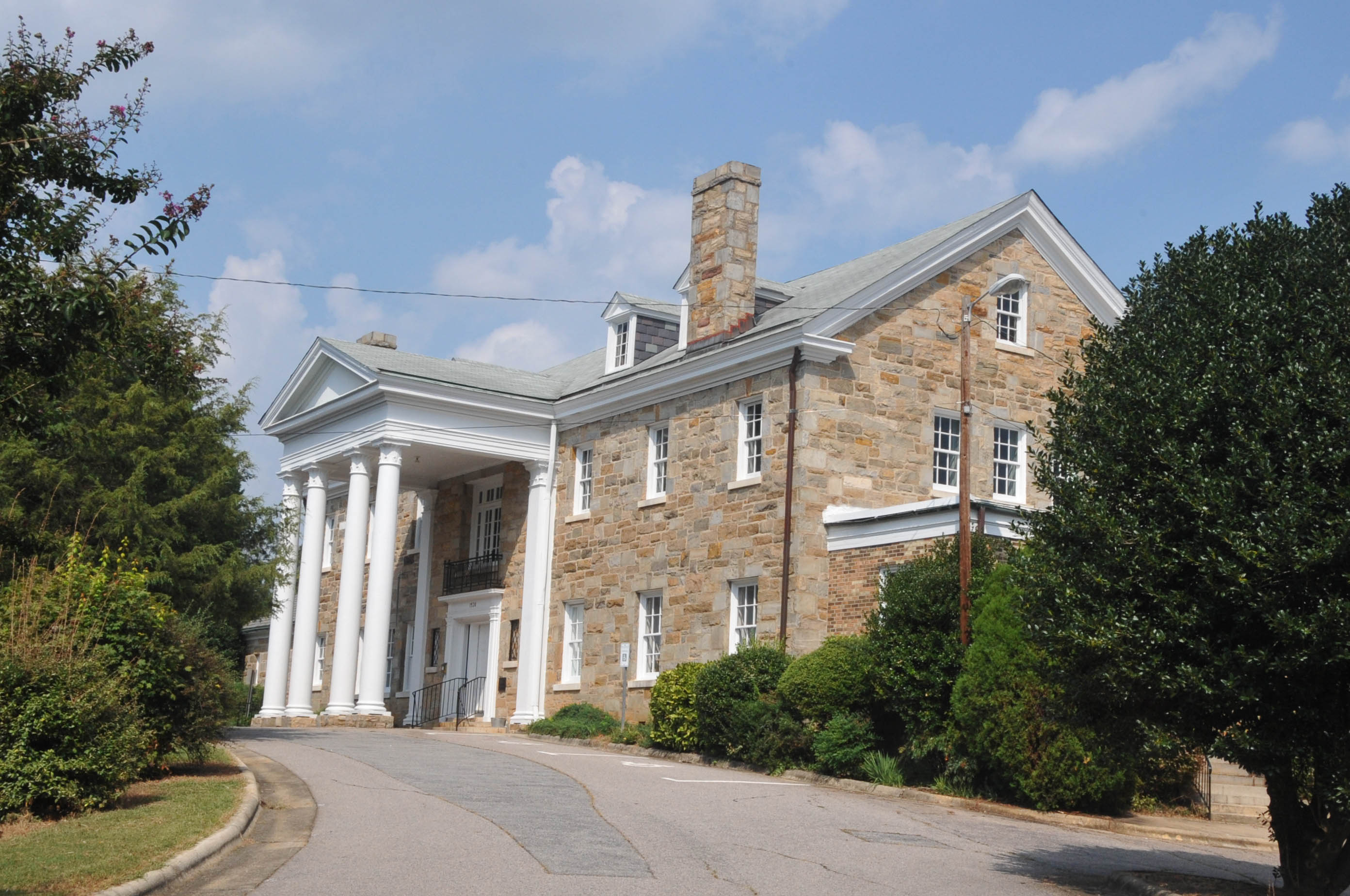 1920; HOME OF SECRETARY OF THE NAVY FROM 1913-1921 UNDER PRESIDENT WILSON; INSTITUTED MAY REFORMS IN THE NAVY; NOW A MASONIC TEMPLE AND A NATL HISTORIC LANDMARK